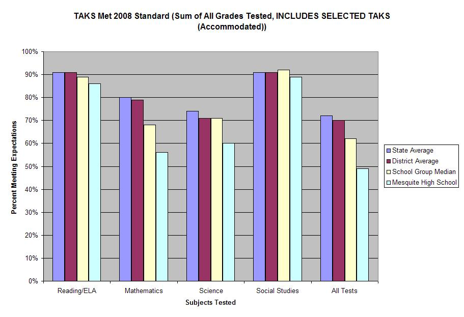 TAKS standards, met